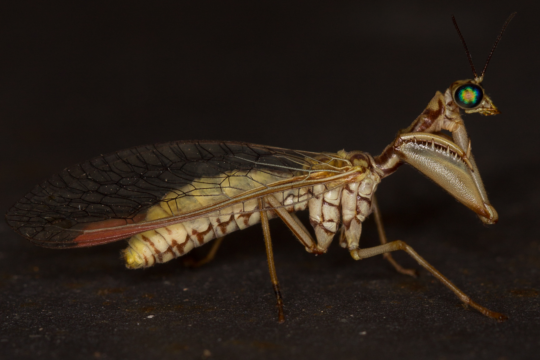 Close-up photograph of a mantidfly (Mantispa)